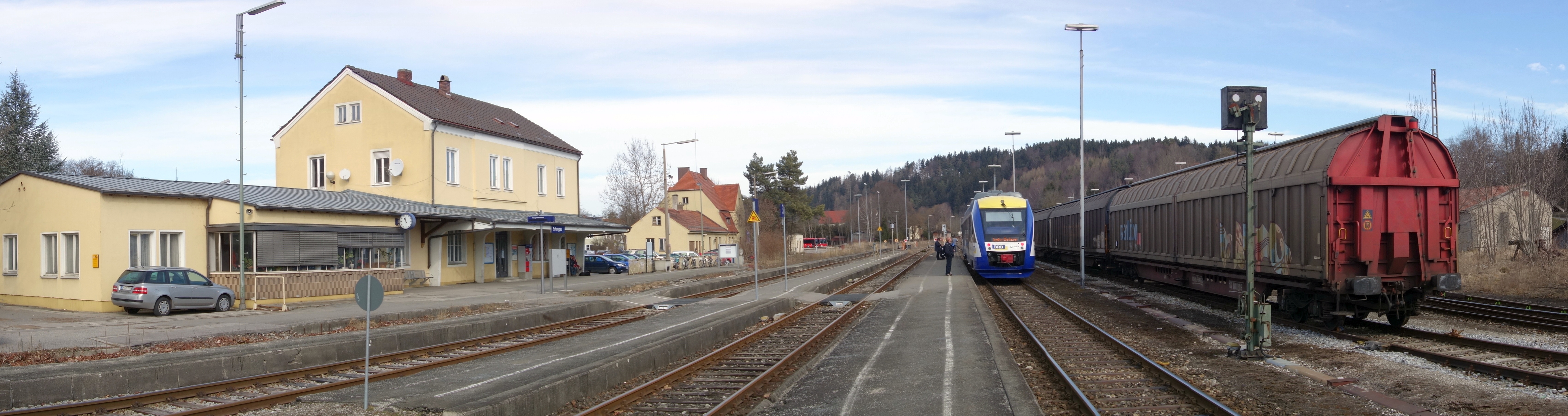 Schongau (Bavaria, Germany): railway station